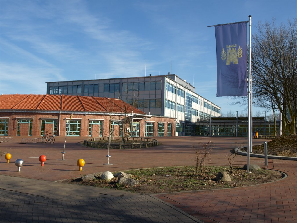 Tornesch (Schleswig-Holstein, Germany) - Klaus-Groth-School - built: 2005-2009 - photo 2008 - The Klaus Groth School originated from the Tornescher Realschule, which was founded in the 1970s. In 2001, the decision was made to phase out Realschule and establish a cooperative comprehensive school (KGS). In the school year 2003/04, the first pupils were taught in the new school form, initially in the old Realschule buildings. - In a perennial construction period a new building was erased for about 26 million Euros. In 2007 the new school building was inaugurated and two years later the sports hall was completed. Since 2010, the new name was “Gemeinschaftsschule mit gymnasialer Oberstufe“ (community school with gymnasium upper school). Object location53° 41′ 25.13″ N, 9° 42′ 37″ E